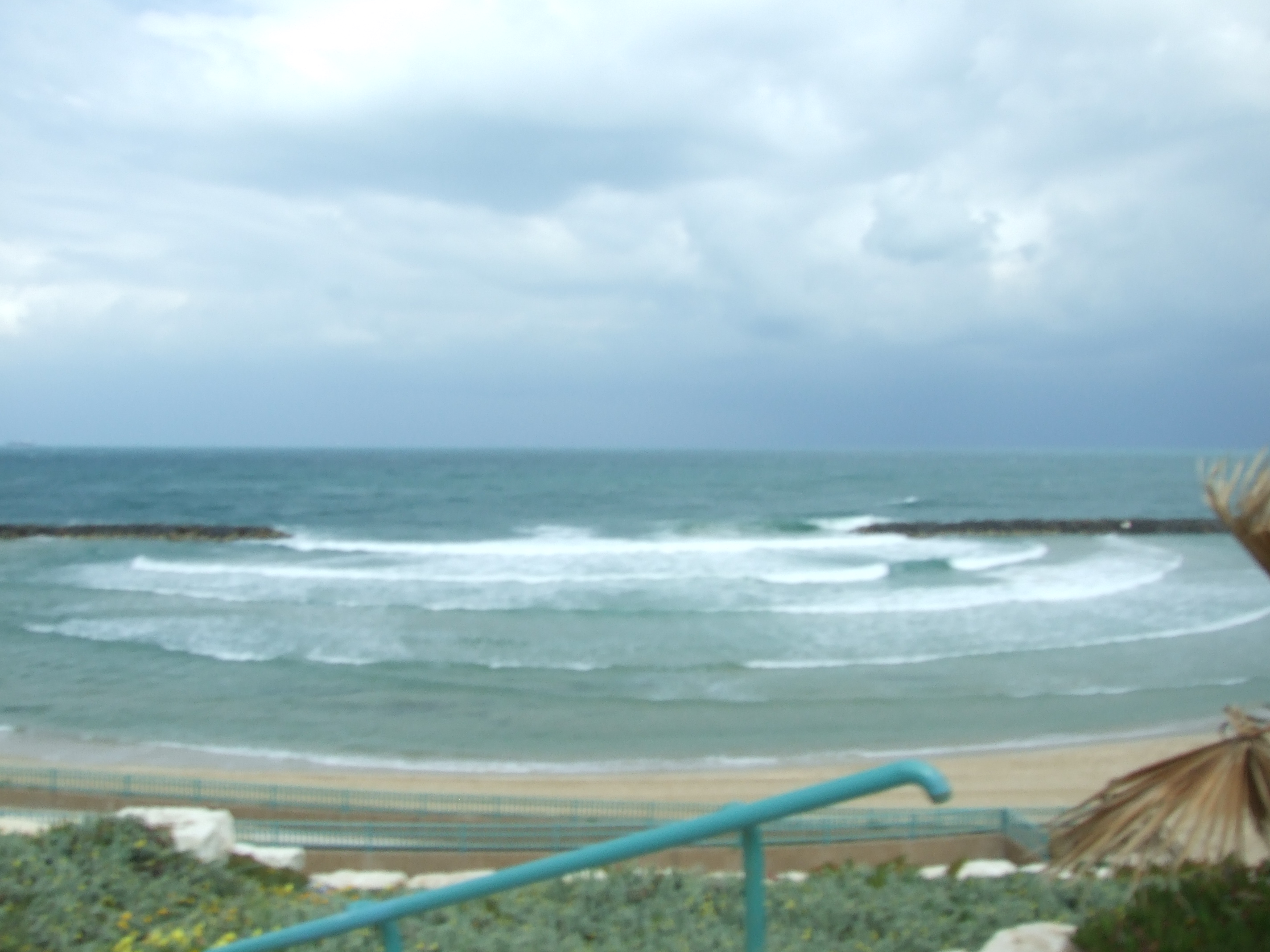 Diffraction of sea waves at breakwater, Ashkelon, Israel